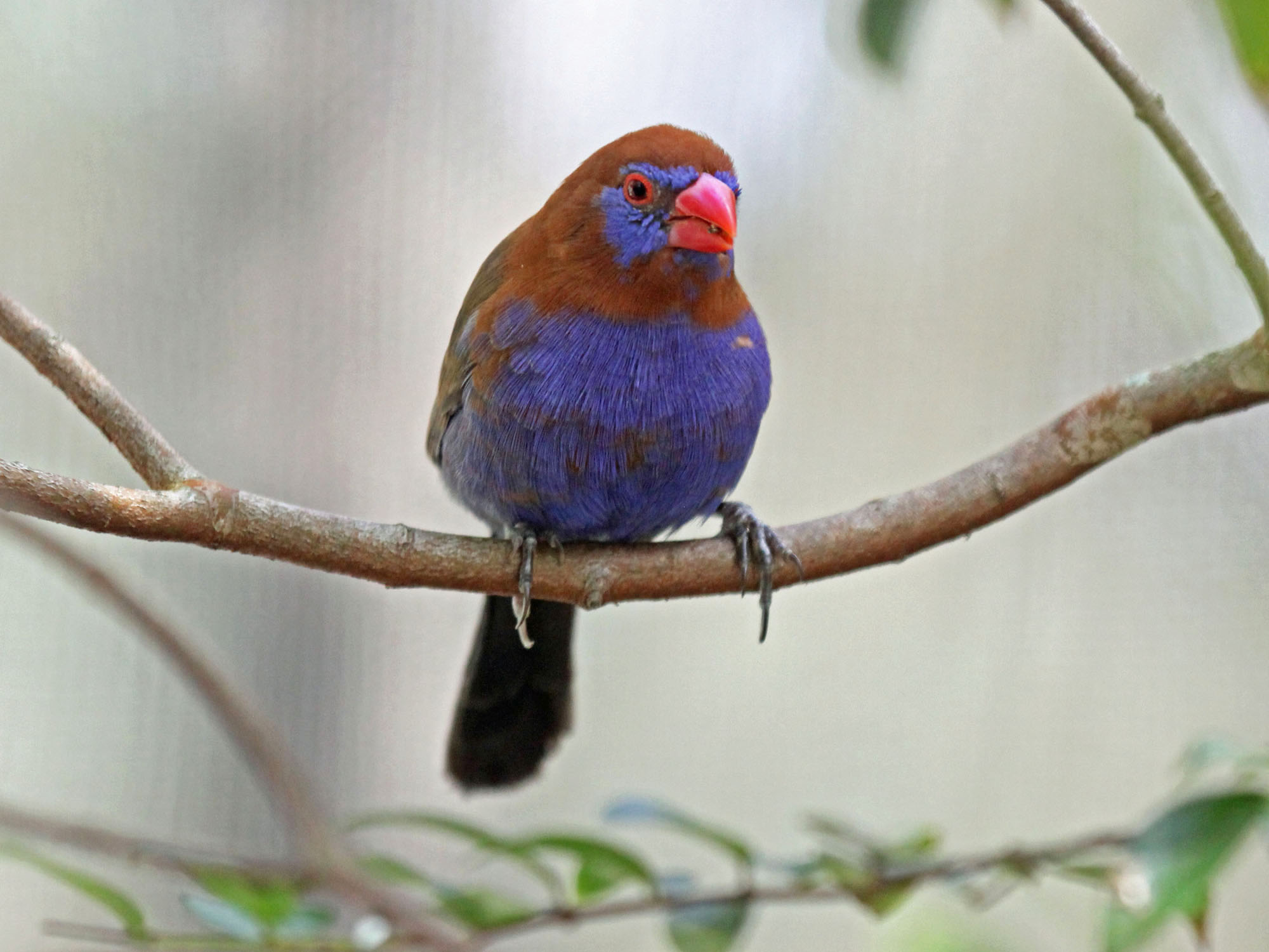 Purple Grenadier (Granatina ianthinogaster or Uraeginthus ianthinogaster) - Butterfly World, Florida